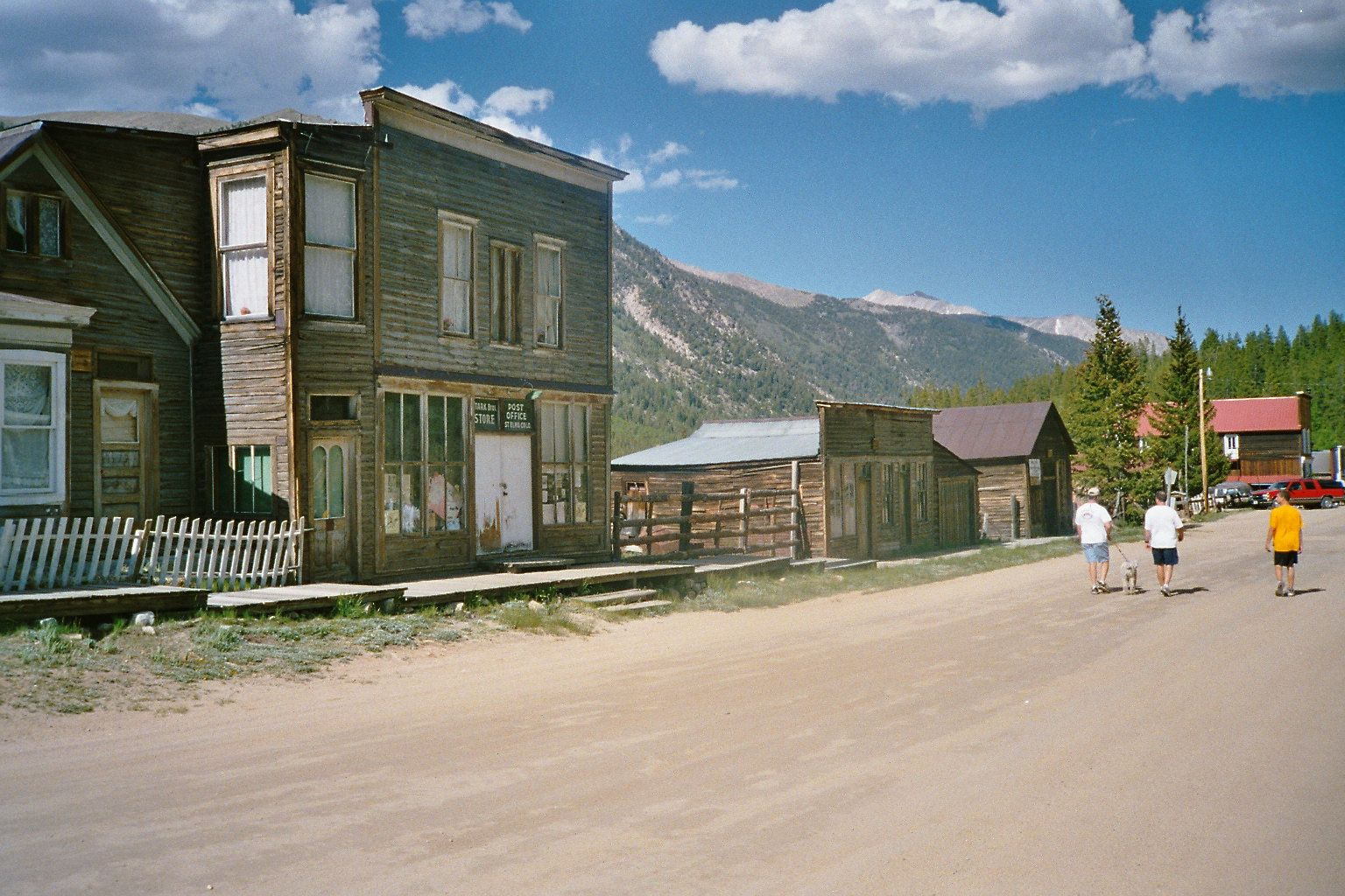 Scene in the ghost town of St. Elmo in Chaffee County, Colorado, United States. The entire community is listed as a historic district on the National Register of Historic Places.